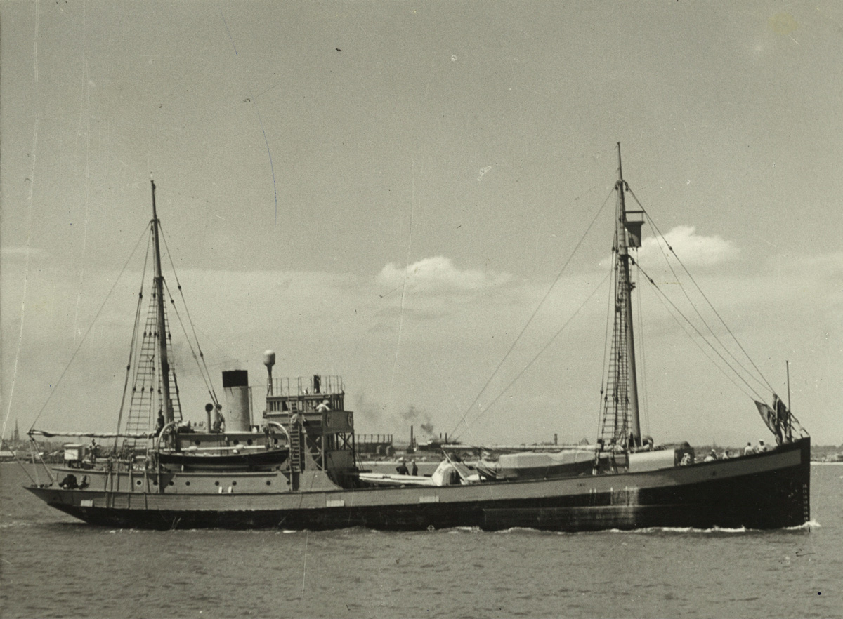 Remembering the ‘Twerp’ On 26 December 1947, a small, nondescript wooden-hulled motor vessel set off from Hobart, bound for Antarctica. Its silhouette resembled that of an ageing offshore fishing craft, but its weather deck was packed from stem to stern with supplies and equipment – including a single-engine Vought-Sikorsky Kingfisher floatplane. At the helm was Commander Karl E Oom, an officer in the Royal Australian Navy (RAN). He was supported by five naval officers, 22 ratings, a Royal Australian Air Force pilot and air fitter mechanic, and an Australian Department of Information photographer. The complement was rounded out by four civilian scientists who were responsible for conducting a series of experiments, and observing meteorological and other natural phenomena in the Antarctic. Their voyage would be the first to operate under the banner of the Australian National Antarctic Research Expedition (ANARE), a series of post-war initiatives to establish Australian scientific research stations in Antarctica and the sub-Antarctic territories of Heard Island and Macquarie Island. ANARE laid the foundation for the establishment of the Australian Antarctic Division, and in later years Australia’s polar research ships could trace their lineage back to the little timber craft then making its way towards the world’s southernmost continent: HMAS Wyatt Earp. The Australian National Maritime Museum undertakes research and accepts public comments that enhance the information we hold about images in our collection. If you can identify a person, vessel or landmark, write the details in the Comments box below. Thank you for helping caption this important historical image. ANMM Collection ANMS1445[081]. Find out more about HMAS Wyatt Earp on our blog.